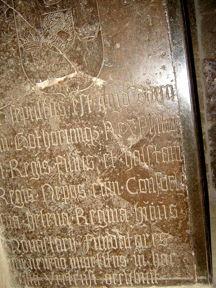 Erroneous 16th century gravestone on the false tomb of 12th century King Ingi the Younger and his [sic] Queen Helen (he is actually buried in a different part of the church, she was probably a somewhat later Swedish princess who married King Canute V of Denmark and from there retired to Vreta)Place: Vreta Church, Linköping, Sweden